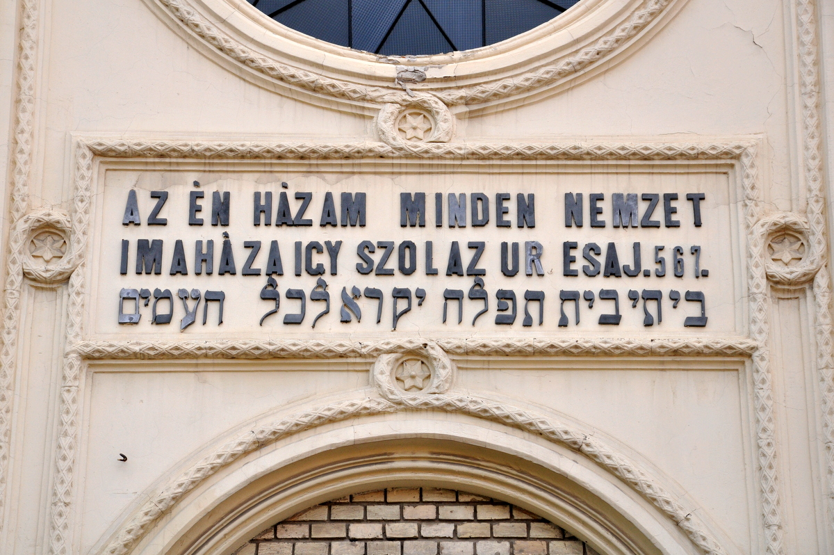 Újpest Synagogue, Budapest District IV